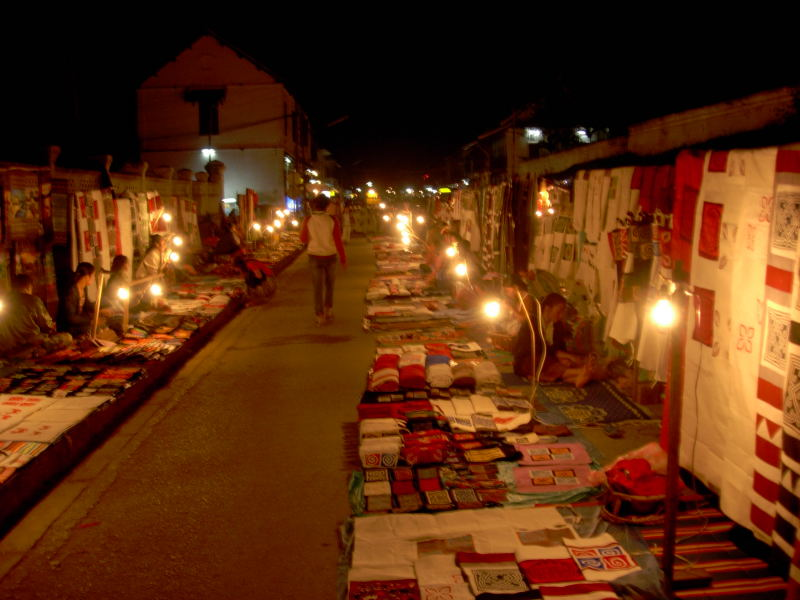 Creative Commons with demand of attribution.